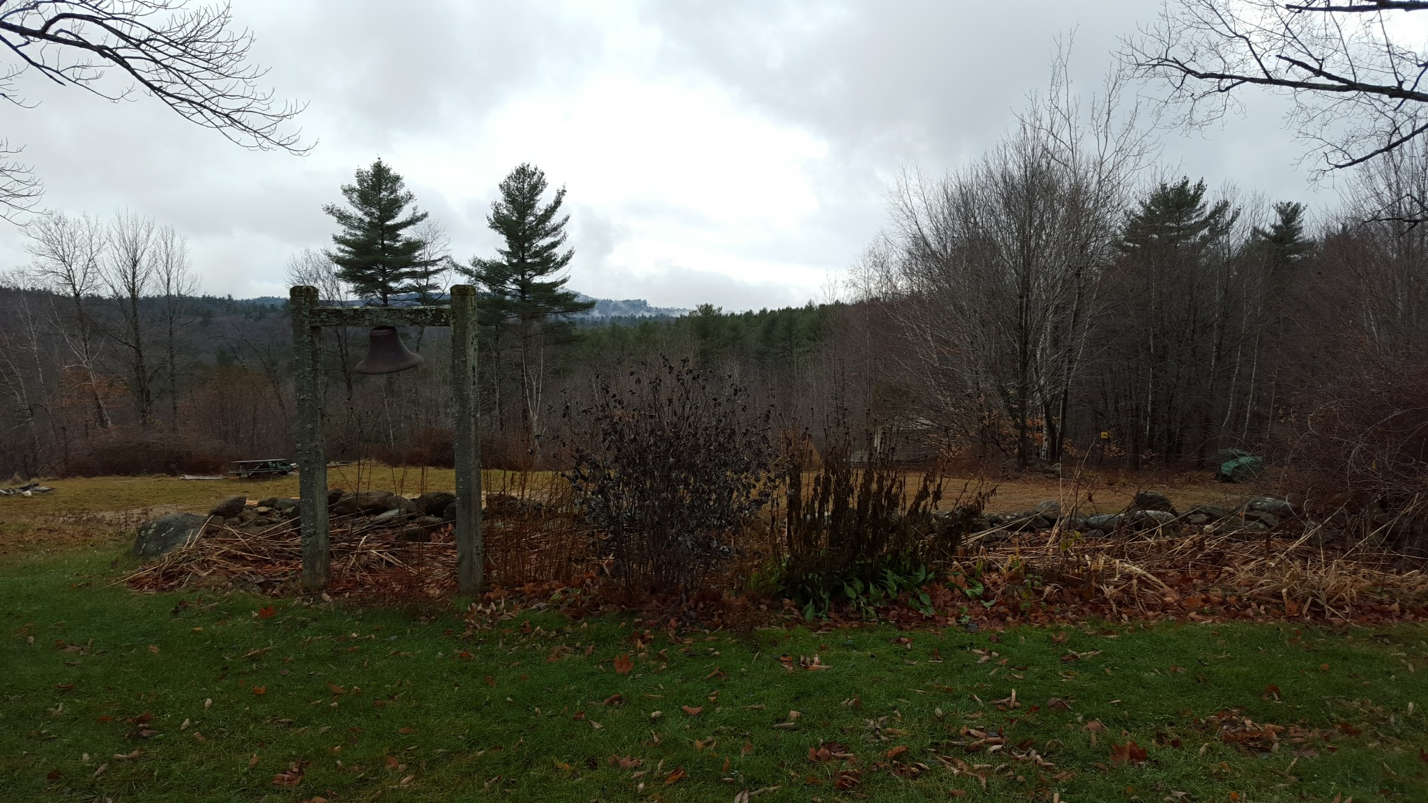 Iconic image from Apple Hill Center for Chamber Music, showing the lunch and dinner bell, used to call participants from around the 100 acre campus to meals.